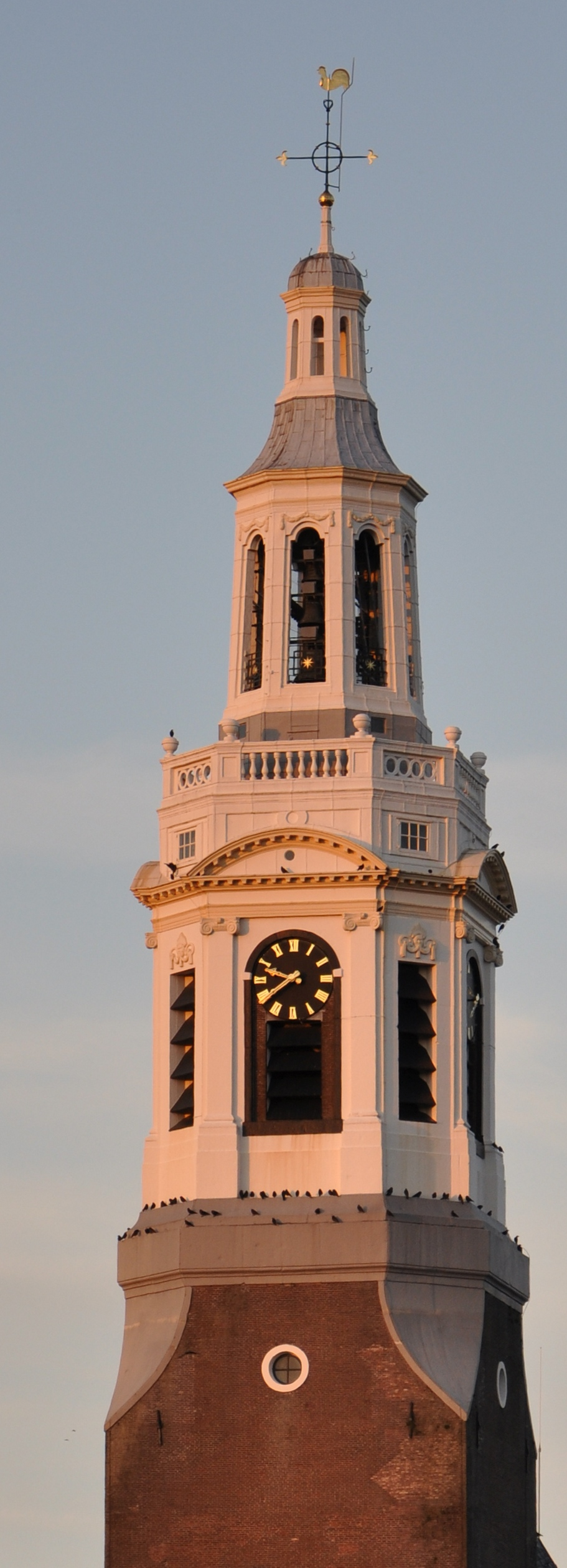 The church tower of Nijkerk (the Netherlands)